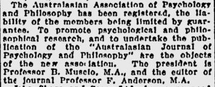 Item in "Company News", Sydney Morning Herald, (Tuesday, 14 October 1924), p.11, column C, announcing the registration of the Australasian Association of Psychology and Philosophy.